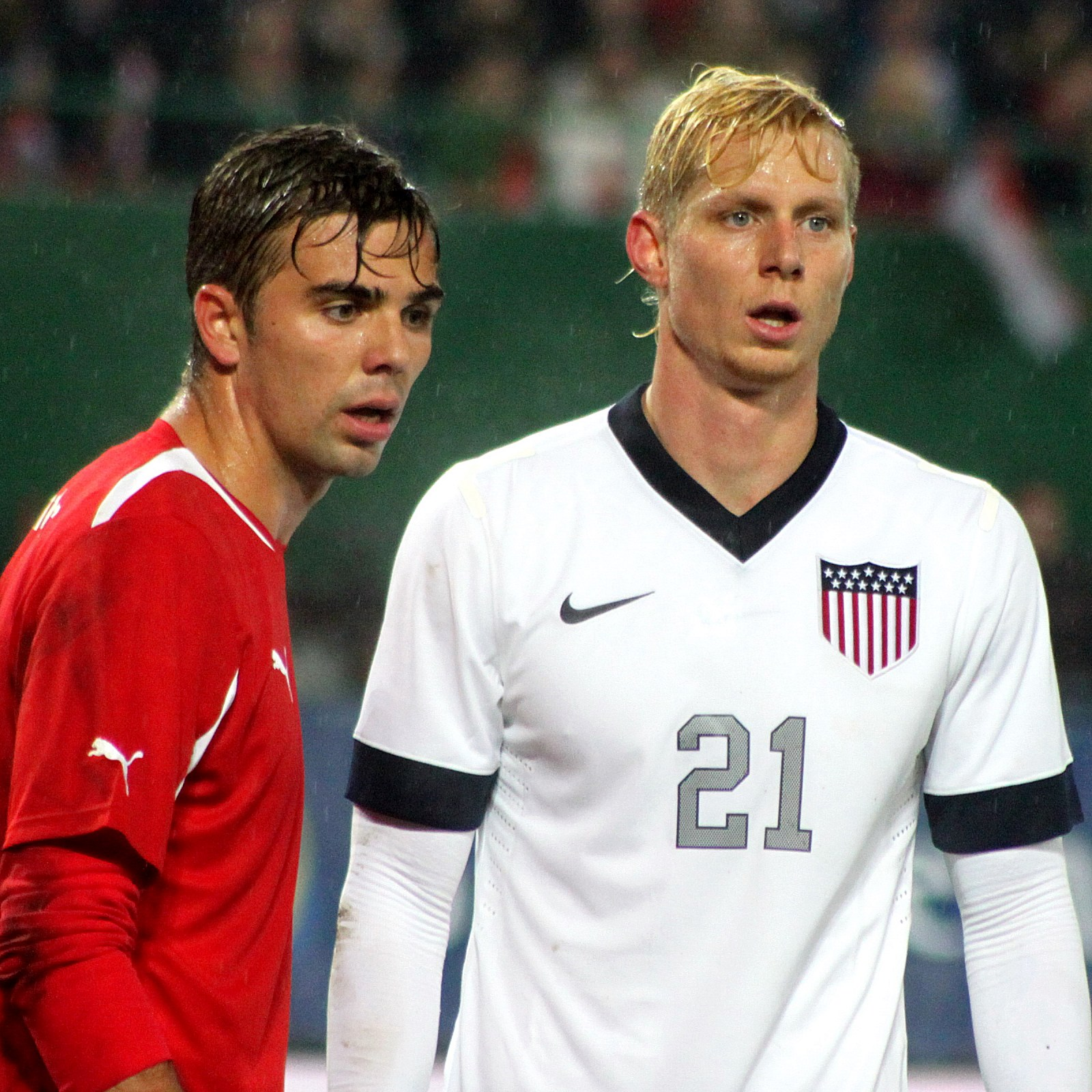 Friendly-match Austria vs. USA (1:0) in the Ernst-Happel-Stadion in Vienna at 2013-03-22. – The photo shows Brek Shea (USA,left) and Lukas Hinterseer (Austria, right).